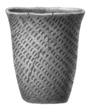 Beaker, Cists ceramic. Västergötland